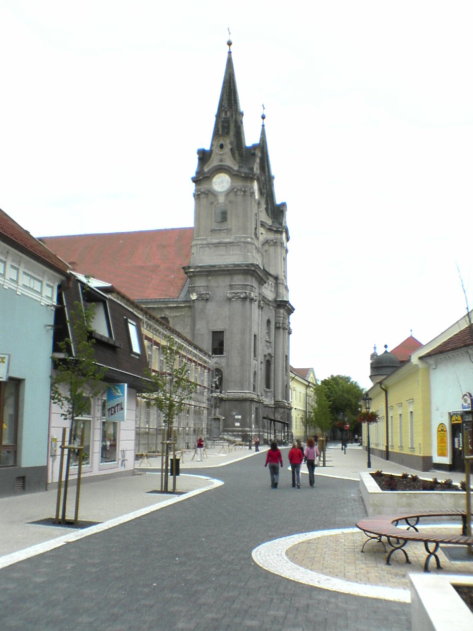 City centre of Komárno